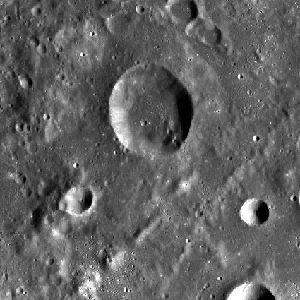 Kuo Shou Ching crater LROC image